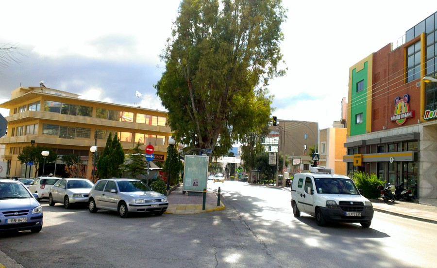 ilion